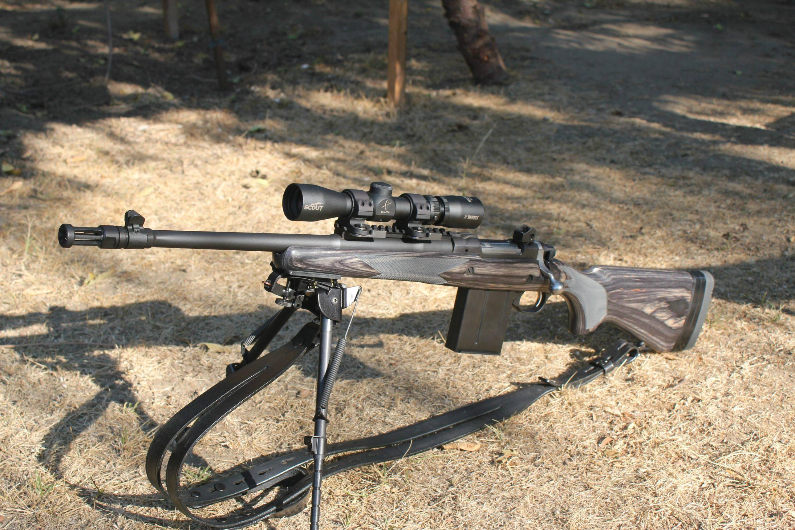 This picture is of a Ruger M77 Gunsite Scout Rifle chambered in .308Win. The gun is the left handed black 16.5" model with the Burris Scout Scope, Harris Bipod and Galco Safari Ching Sling.